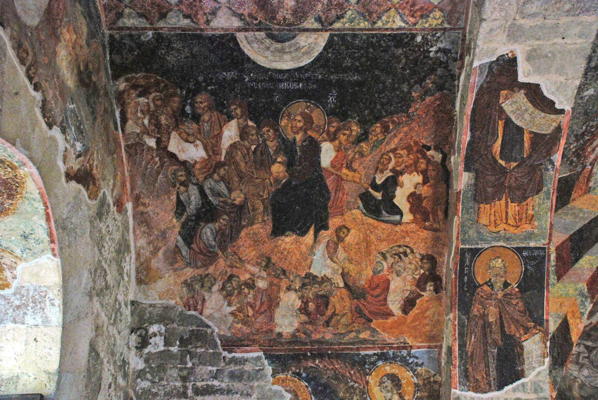 Trabzon, Hagia Sophia, feeding of 5000